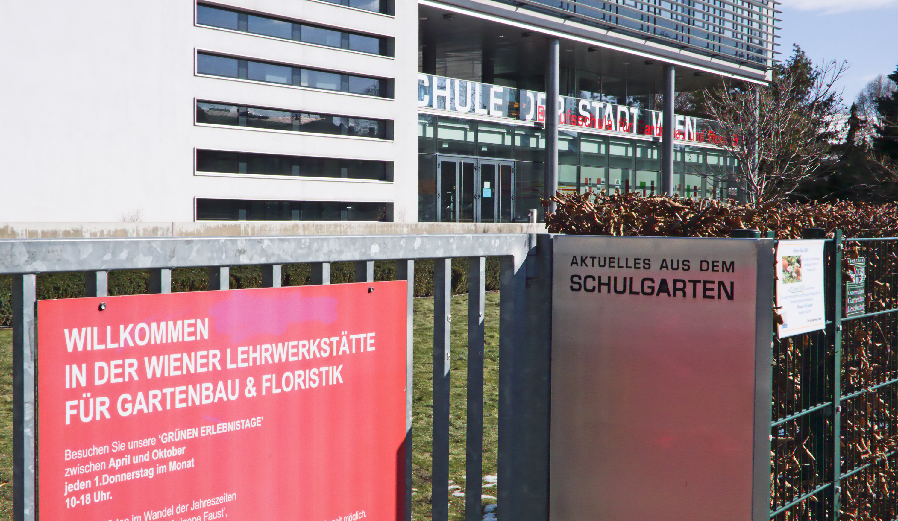 High School for Gardening and Floristry in Vienna Donaustadt